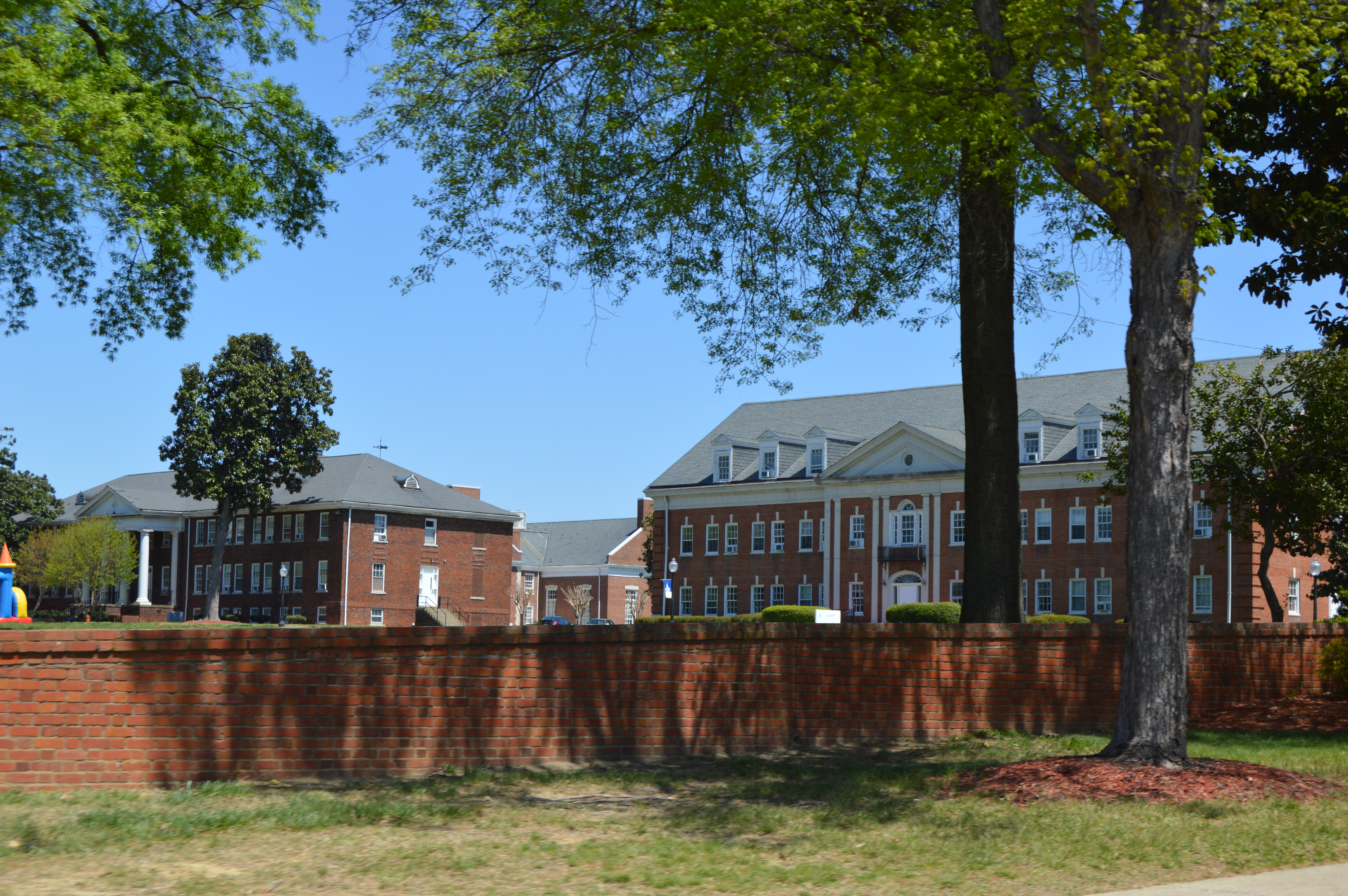 Southern section of the Bennett College campus, seen from Gorrell Street in Greensboro, North Carolina, United States. The campus has been designated a historic district and is listed on the National Register of Historic Places.